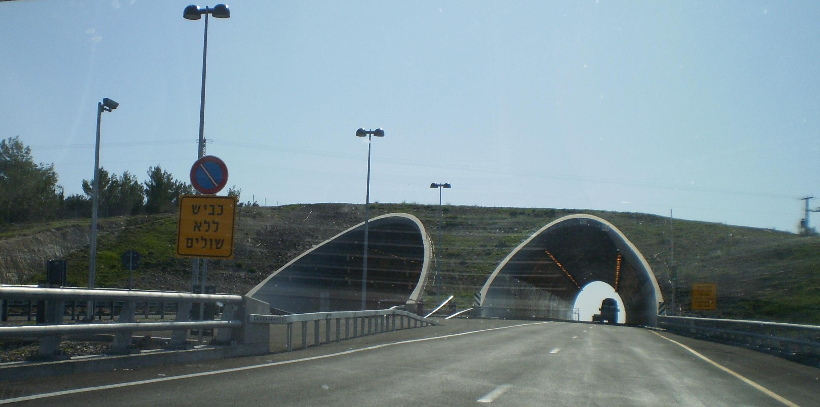 Tunnels in Road 6 in Israel, north of Iron interchange